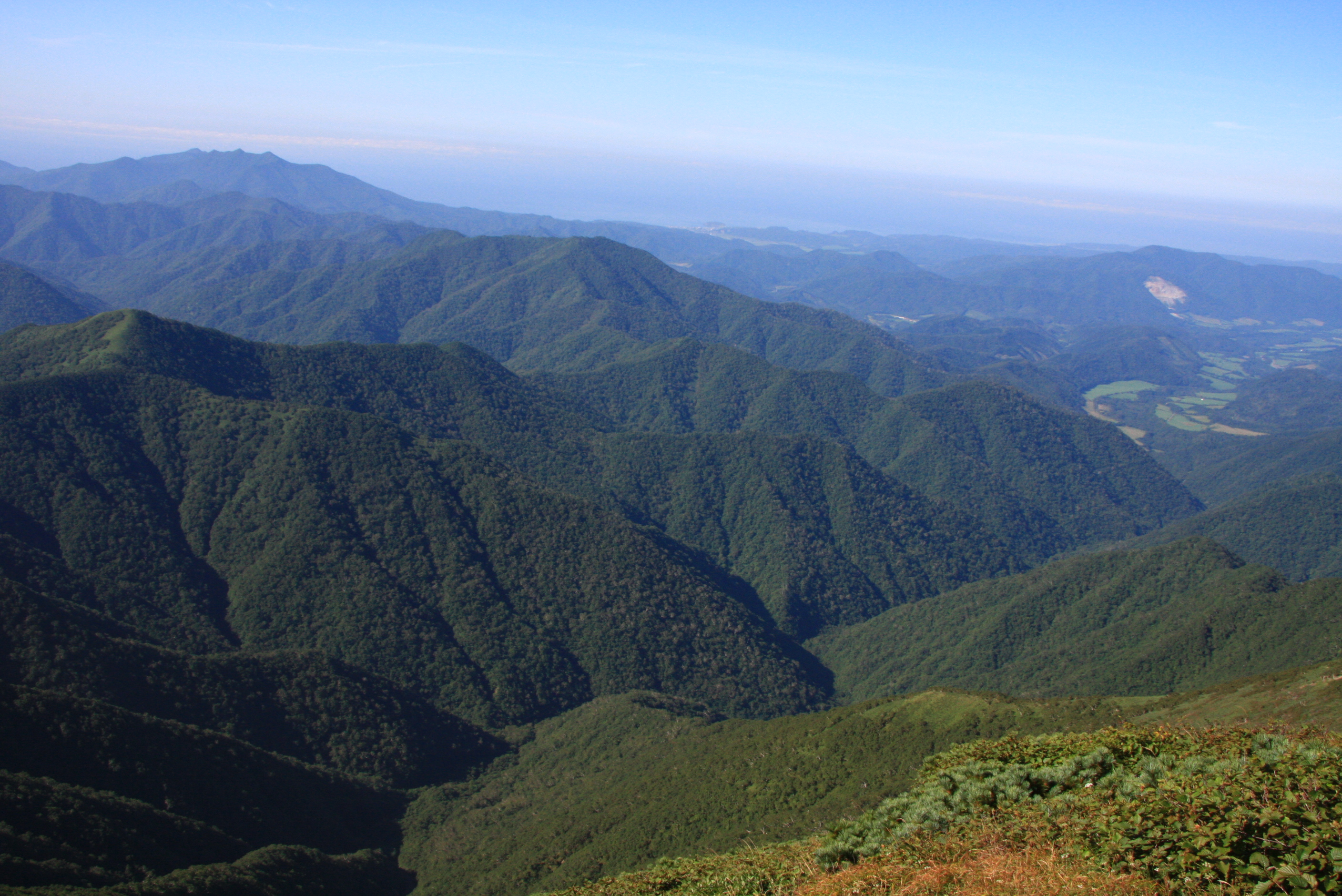 Mount Apoi (Apoi-dake) and Cape Enrumu seen from Mount Rakko